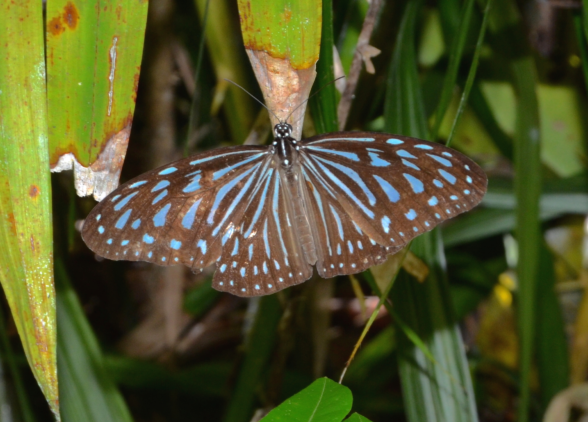 Thanks to Gerry for ID